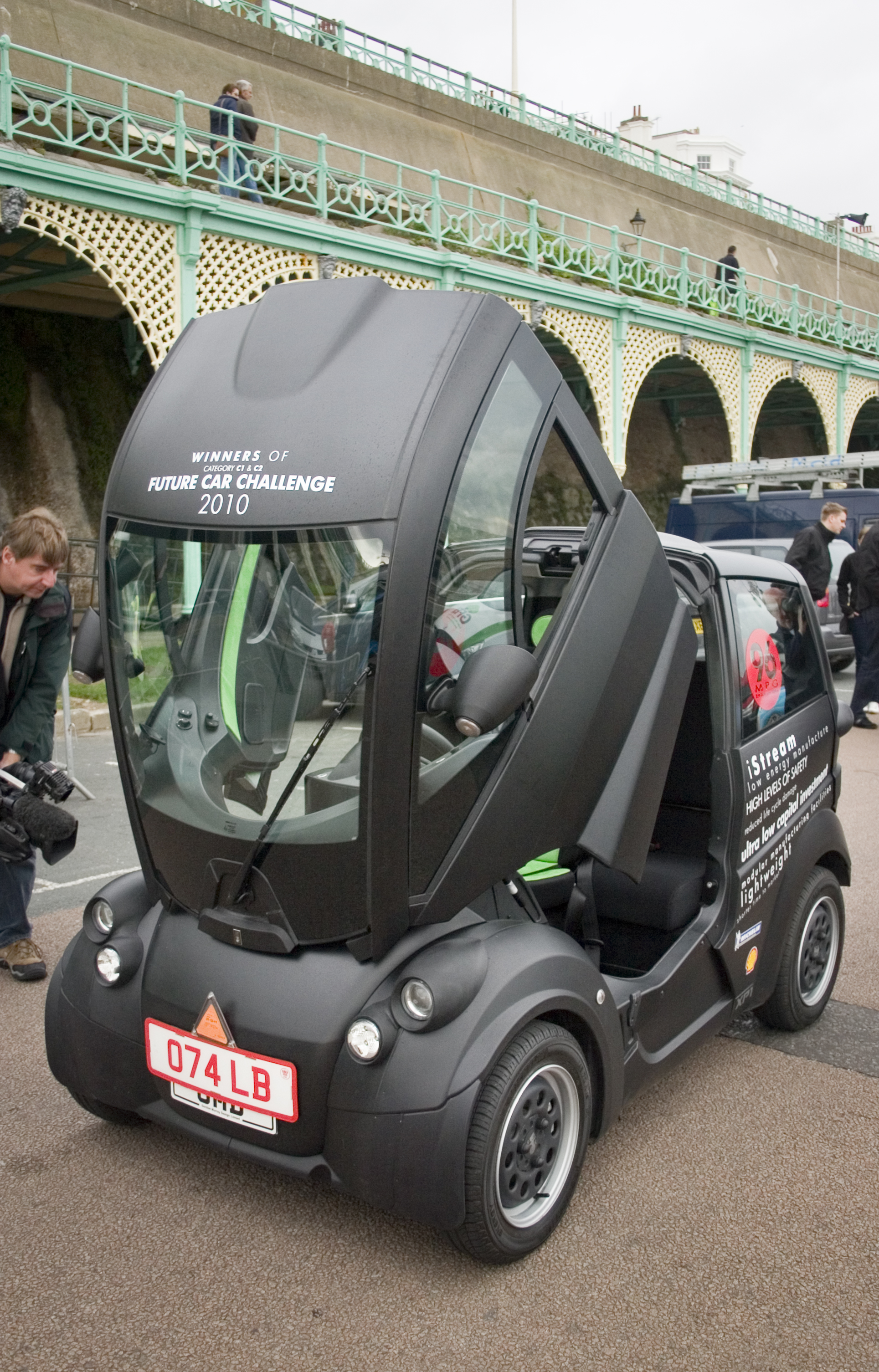 Gordon Murray Design Make and Model: Gordon Murray Design T.25 Start Number: 25 Energy: ICE (Internal Combustion Engine - CO₂ 86 g/km)